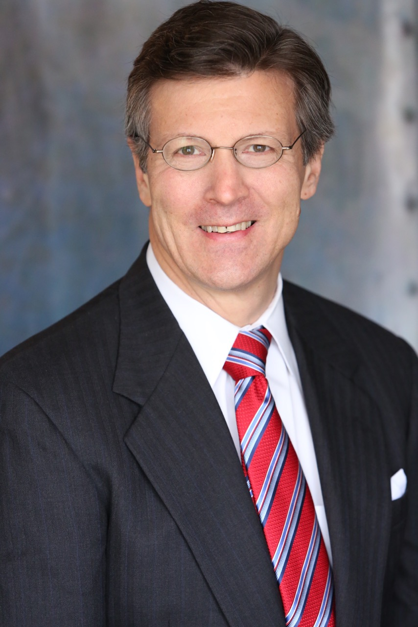 David Weild IV, Founder, Chairman and CEO of IssuWorks and former Vice Chairman of NASDAQ